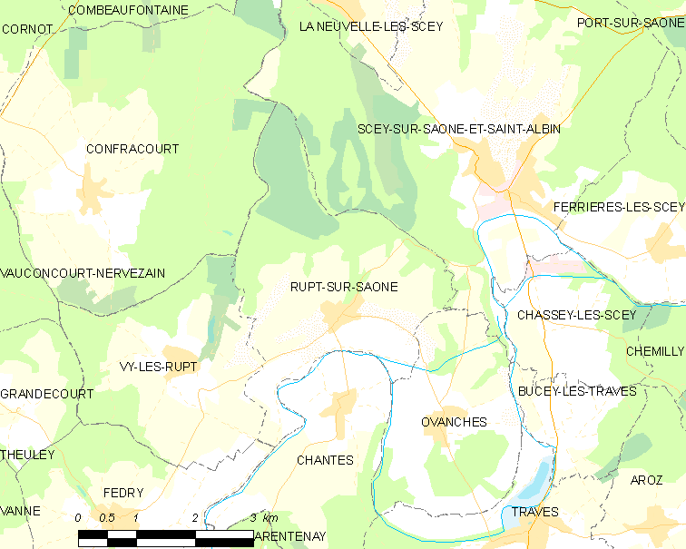 Map of French municipality